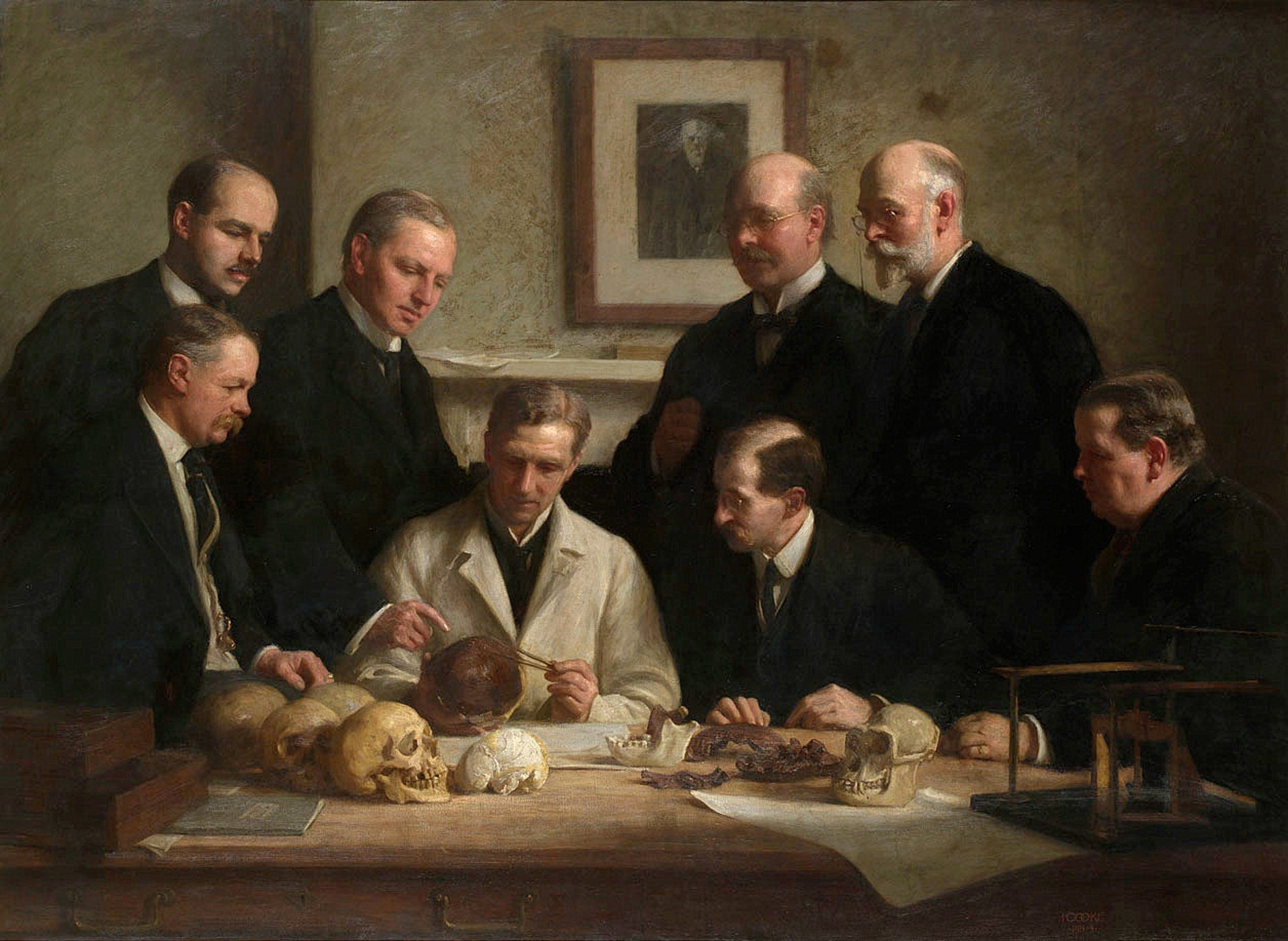 The portrait painted by John Cooke in 1915. Back row: (left to right) F. O. Barlow, G. Elliot Smith, Charles Dawson, Arthur Smith Woodward. Front row: A. S. Underwood, Arthur Keith, W. P. Pycraft, and Sir Ray Lankester. Note the painting of Charles Darwin on the wall.